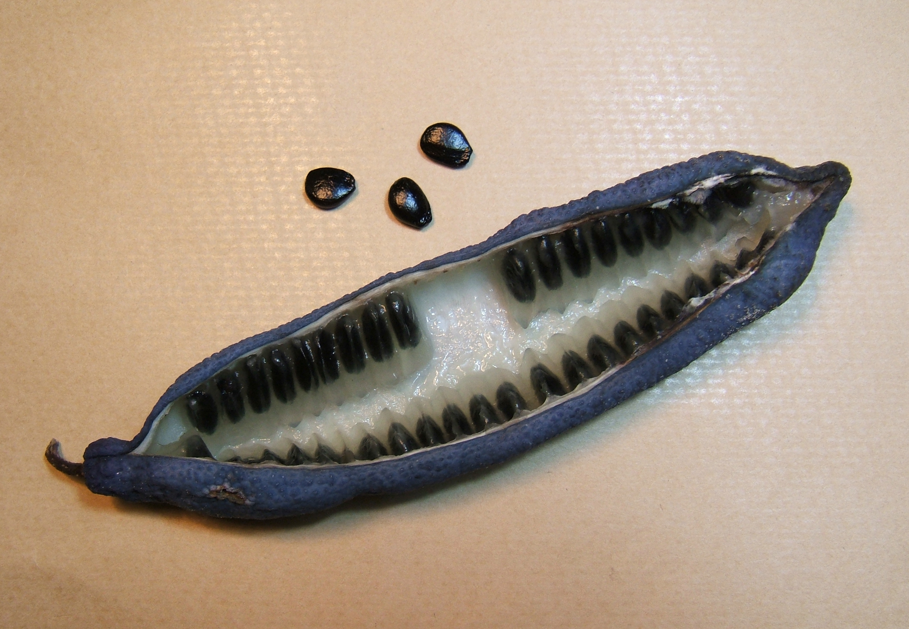 Decaisnea insignis (syn. D. fargesii) opened fruit showing seeds and jelly-like pulp. Fruit is 15.5 cm long.